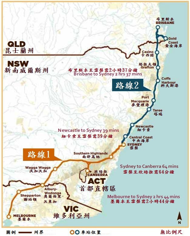 Colour diagram showing map of south-eastern Australia on which is marked the preferred route of the prospective east coast high speed rail system currently being studied by the Australian Government.